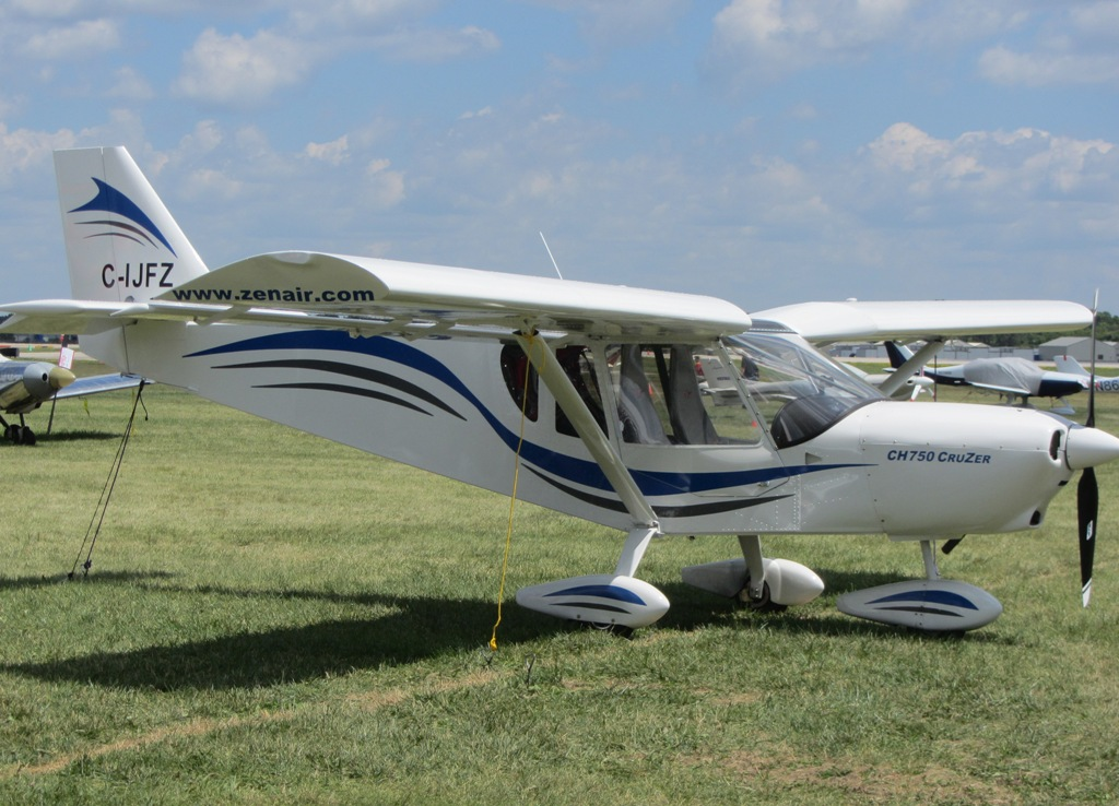 Zenith CH750 cruzer